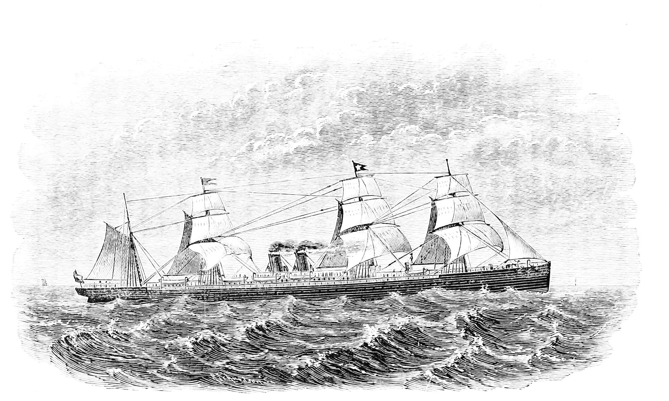 Engraving of the White Star liner Germanic, built in 1874